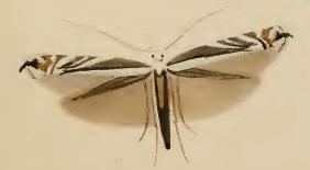 Stainton’s Natural History of the Tineina (1855–1873): Micrurapteryx kollariella